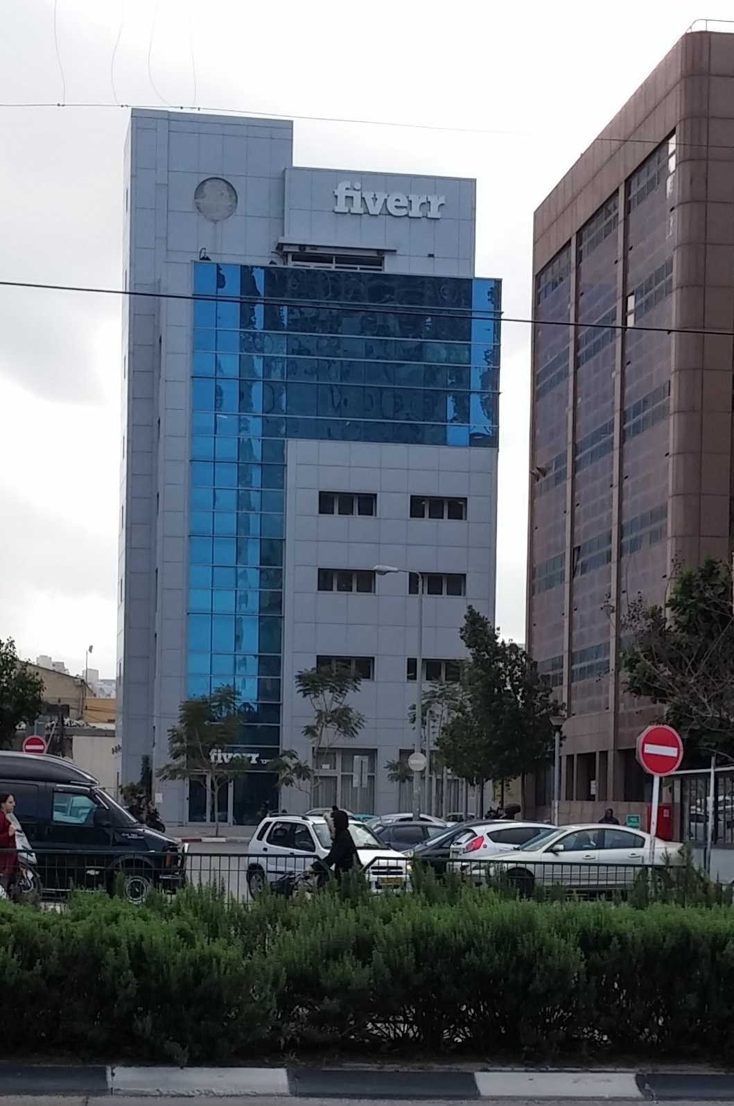 fiverr building in Tel Aviv